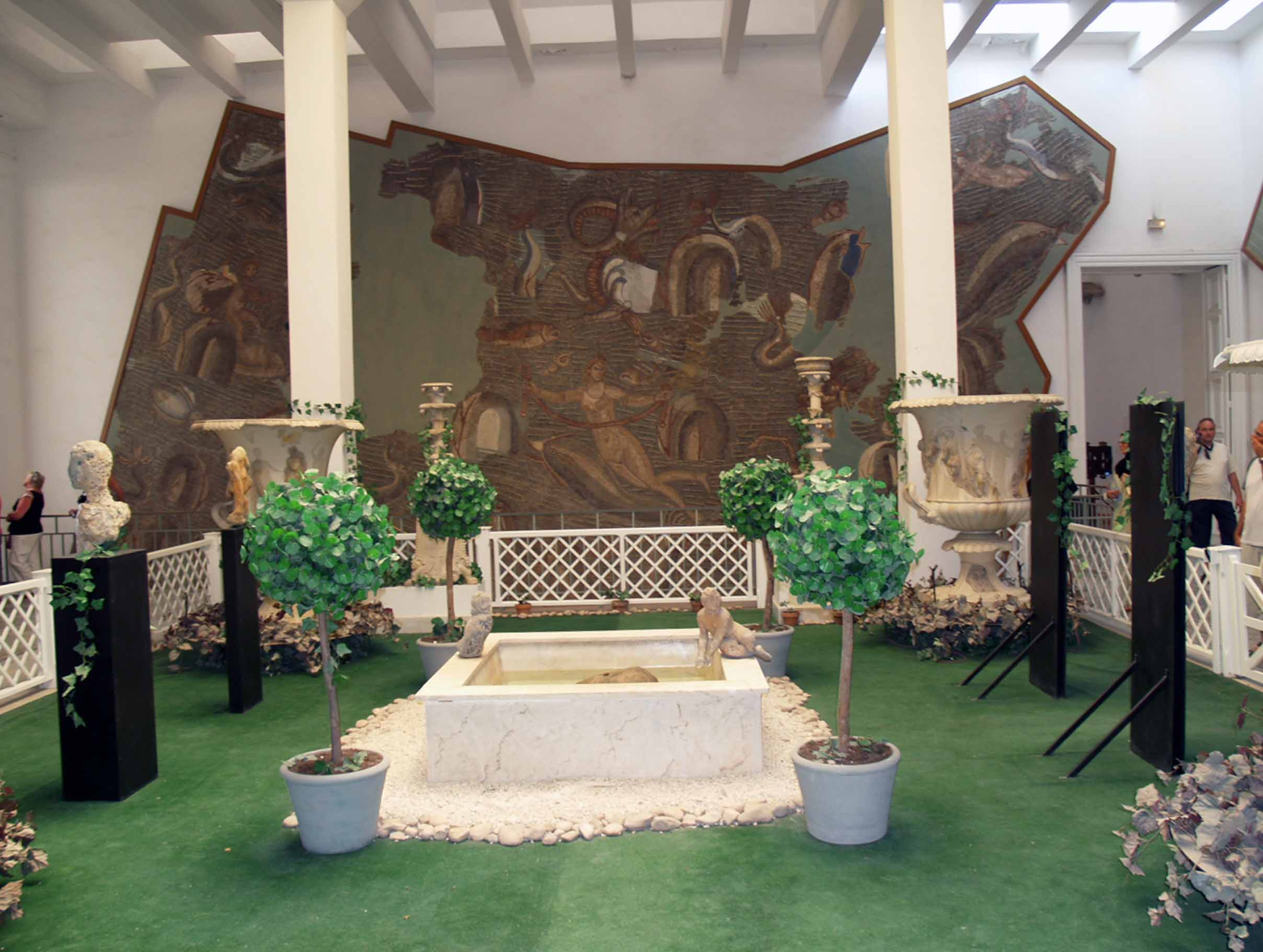 A mosaic in the Bardo National Museum.